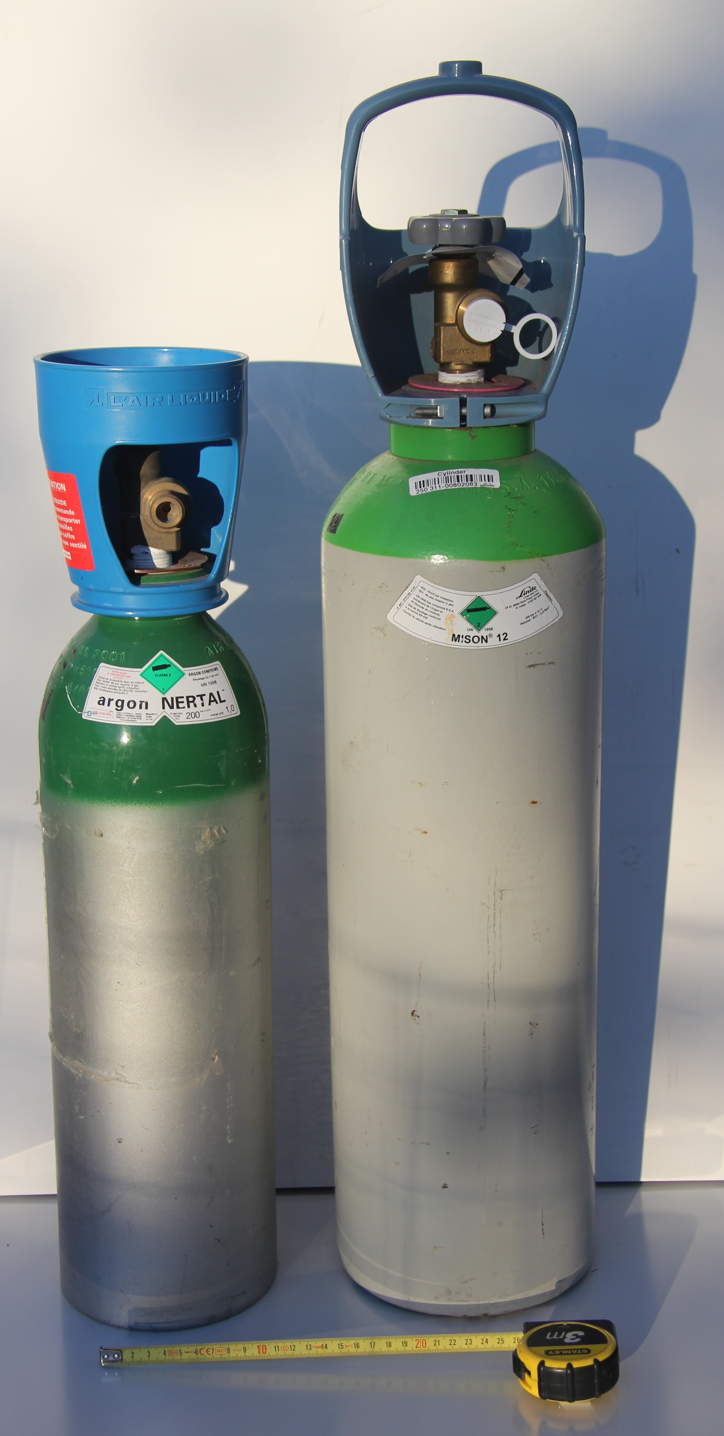 Size comparison between B05 and B11 bottle gas.